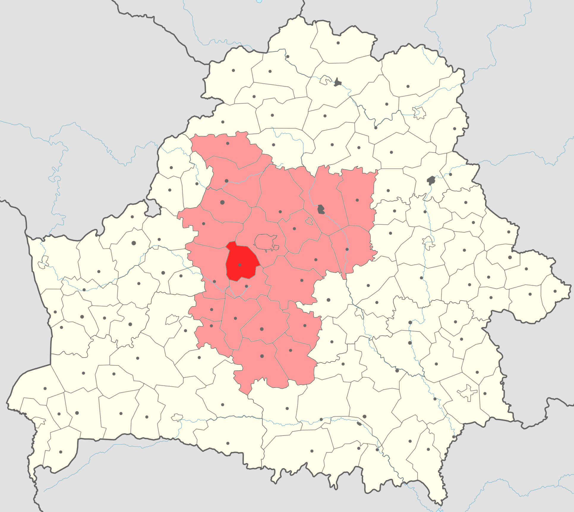 Map of Dziarzhynsk (Dzerzhinsk') rayon (in red) with Minsk voblast' (in light red) on the map of Belarus.